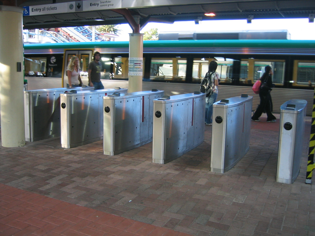 Transperth Fare gates at Perth Train Station